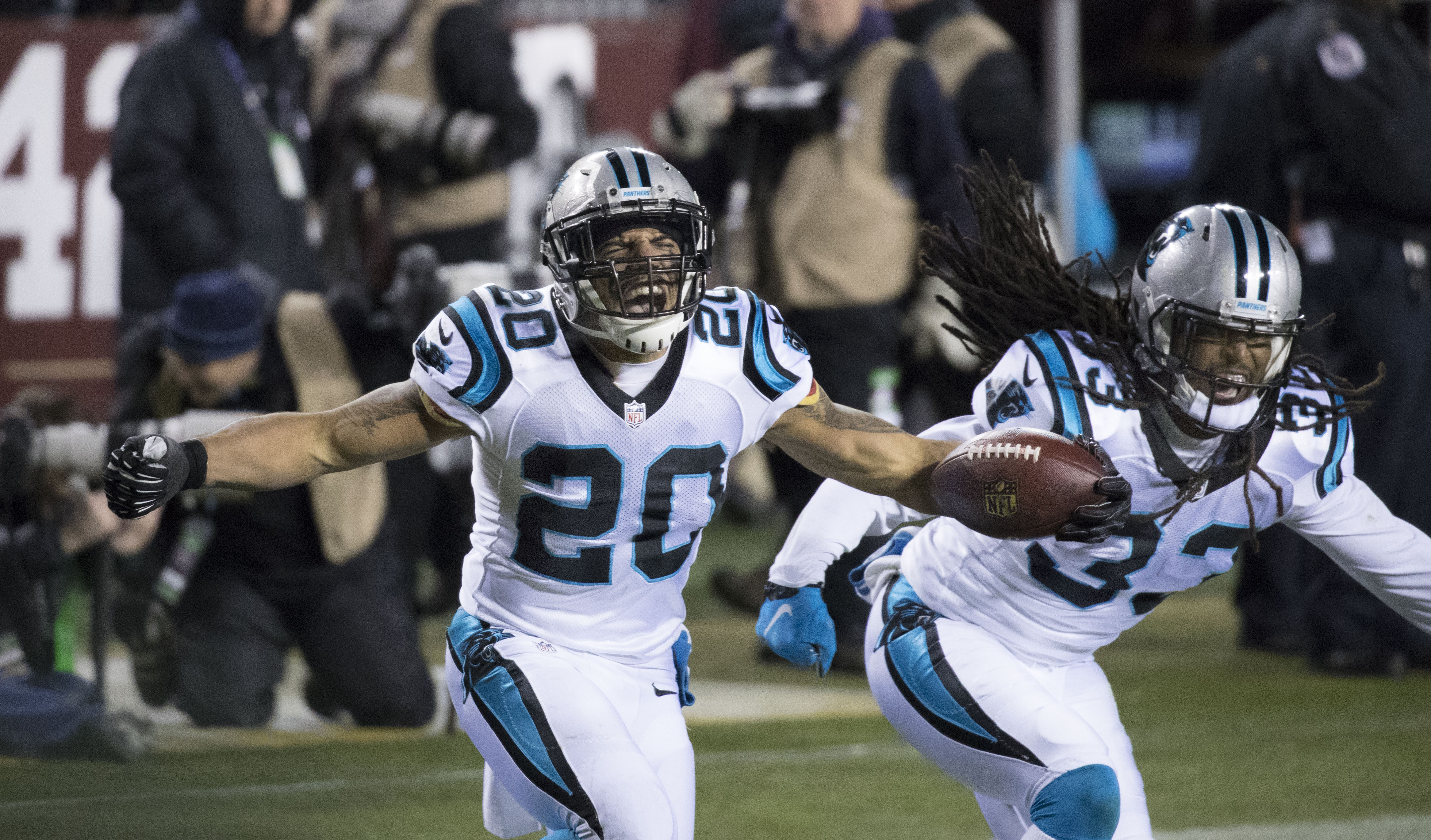 Panthers at Redskins 12/19/16